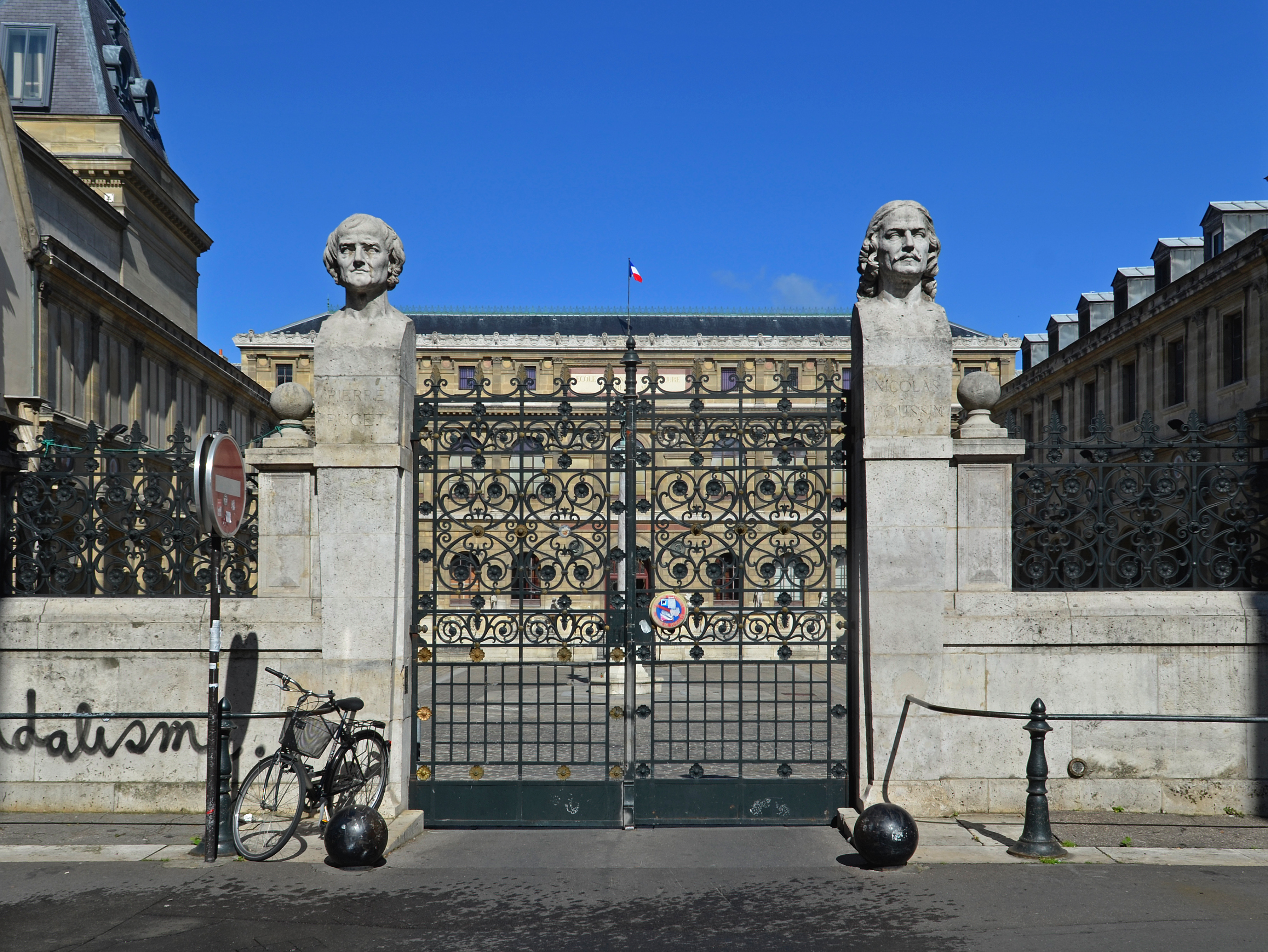 Entrance of École nationale supérieure des Beaux-Arts - Bonaparte street, 14 - 6th arrondissement of Paris